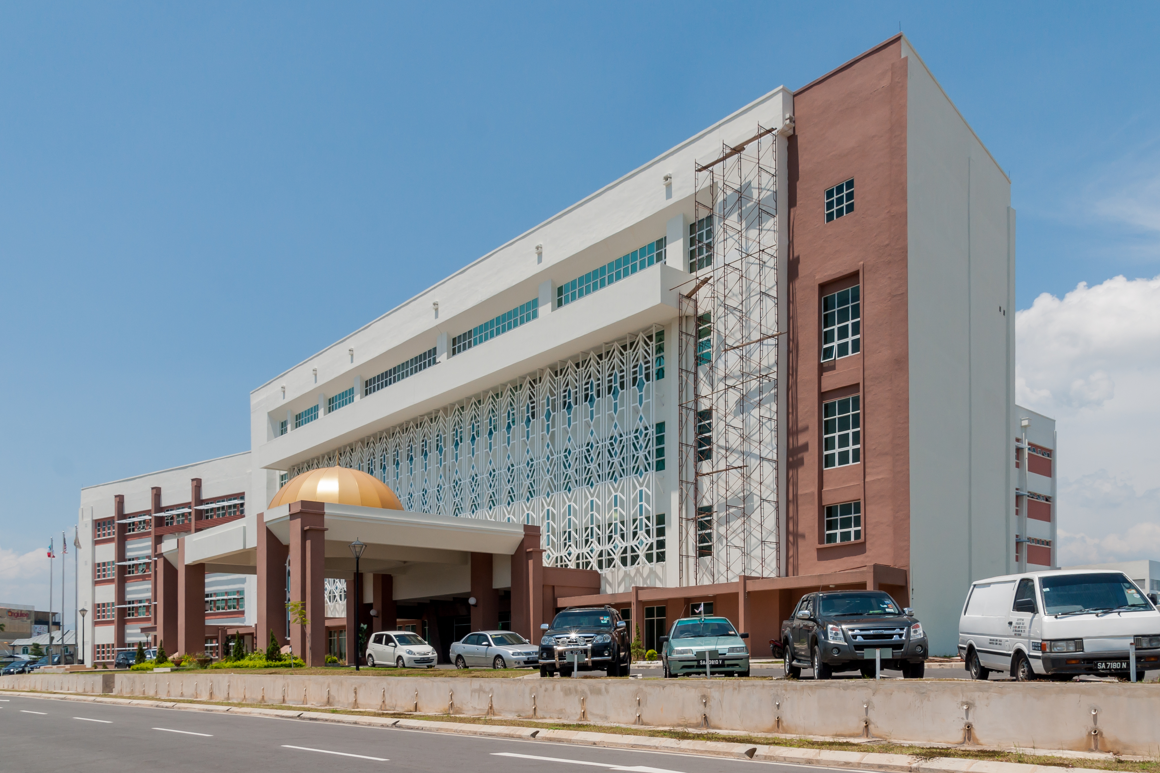 Donggongon, Sabah: Kota Kinabalu Broadcasting Complex